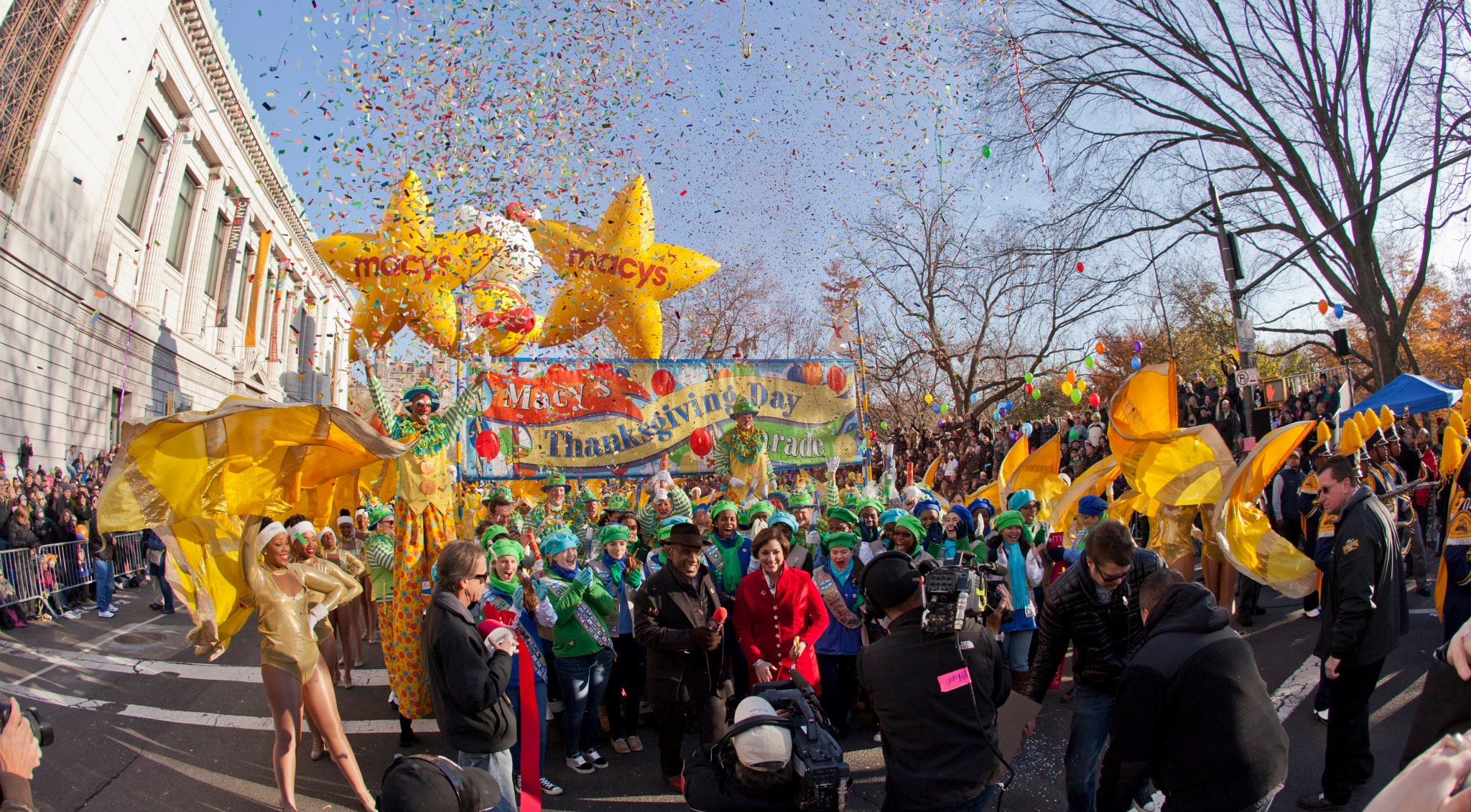 Members of North Carolina A&T's Blue & Gold Marching Machine with Al Roker at the 2012 Macys Thanksgiving Day Parade in New York City